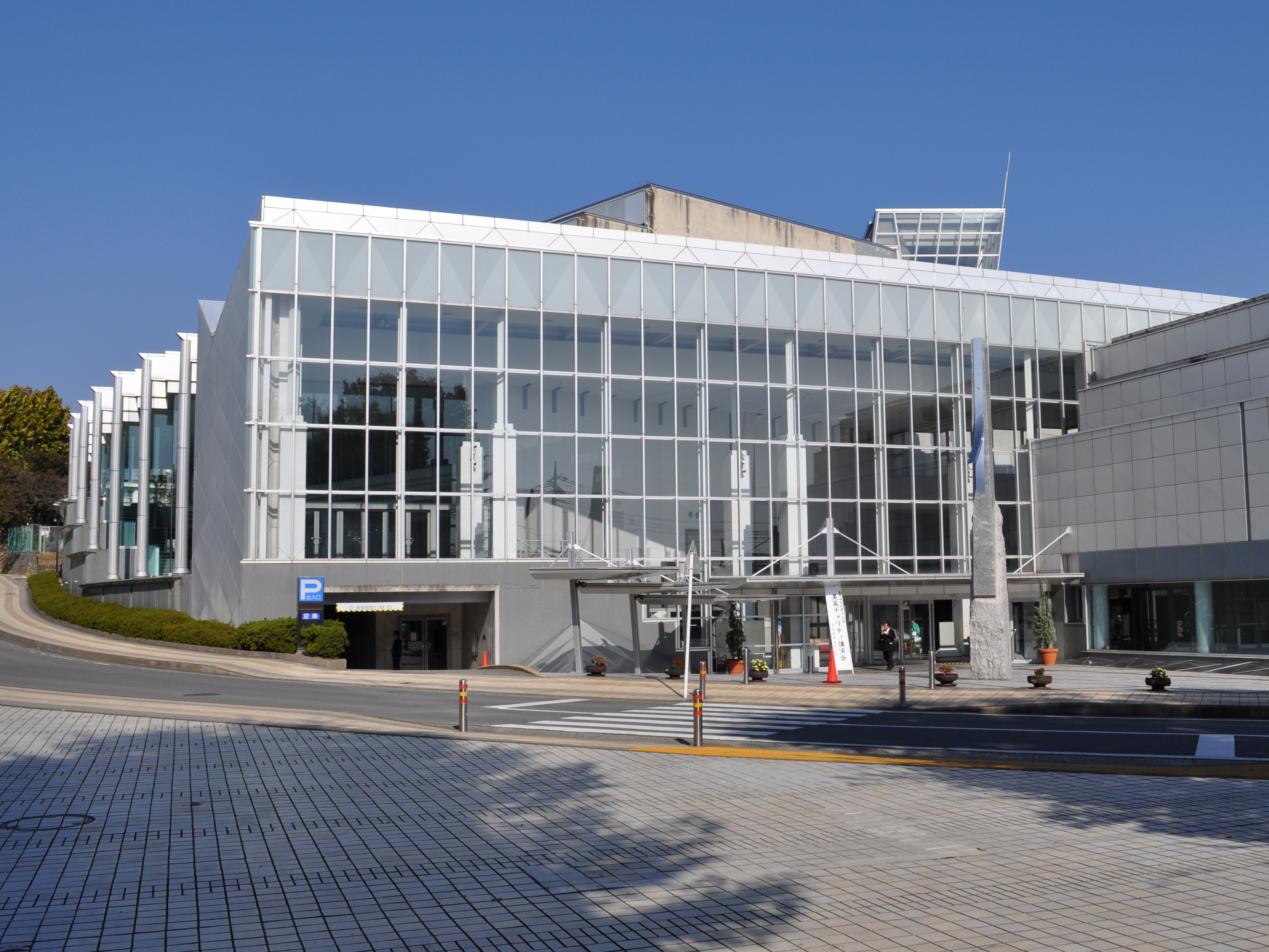 Minamiashigara Cultural Hall in Minamiashigara, Kanagawa, Japan.